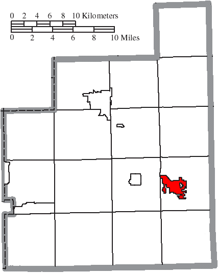 Map of the municipal and township boundaries of Geauga County, Ohio, United States, as of the 2000 census, with the location of the village of Middlefield highlighted. Township borders are shown only in unincorporated areas in order to differentiate incorporated and unincorporated areas more clearly.